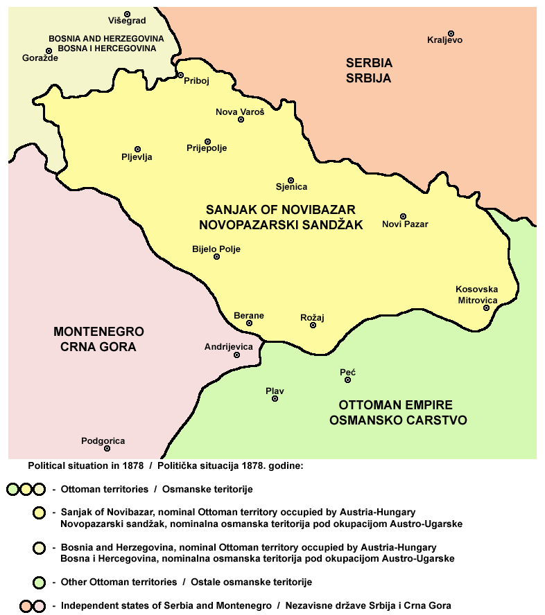 Map of the Sanjak of Novibazar, nominal territory of the Ottoman Empire under Austro-Hungarian occupation in 1878.